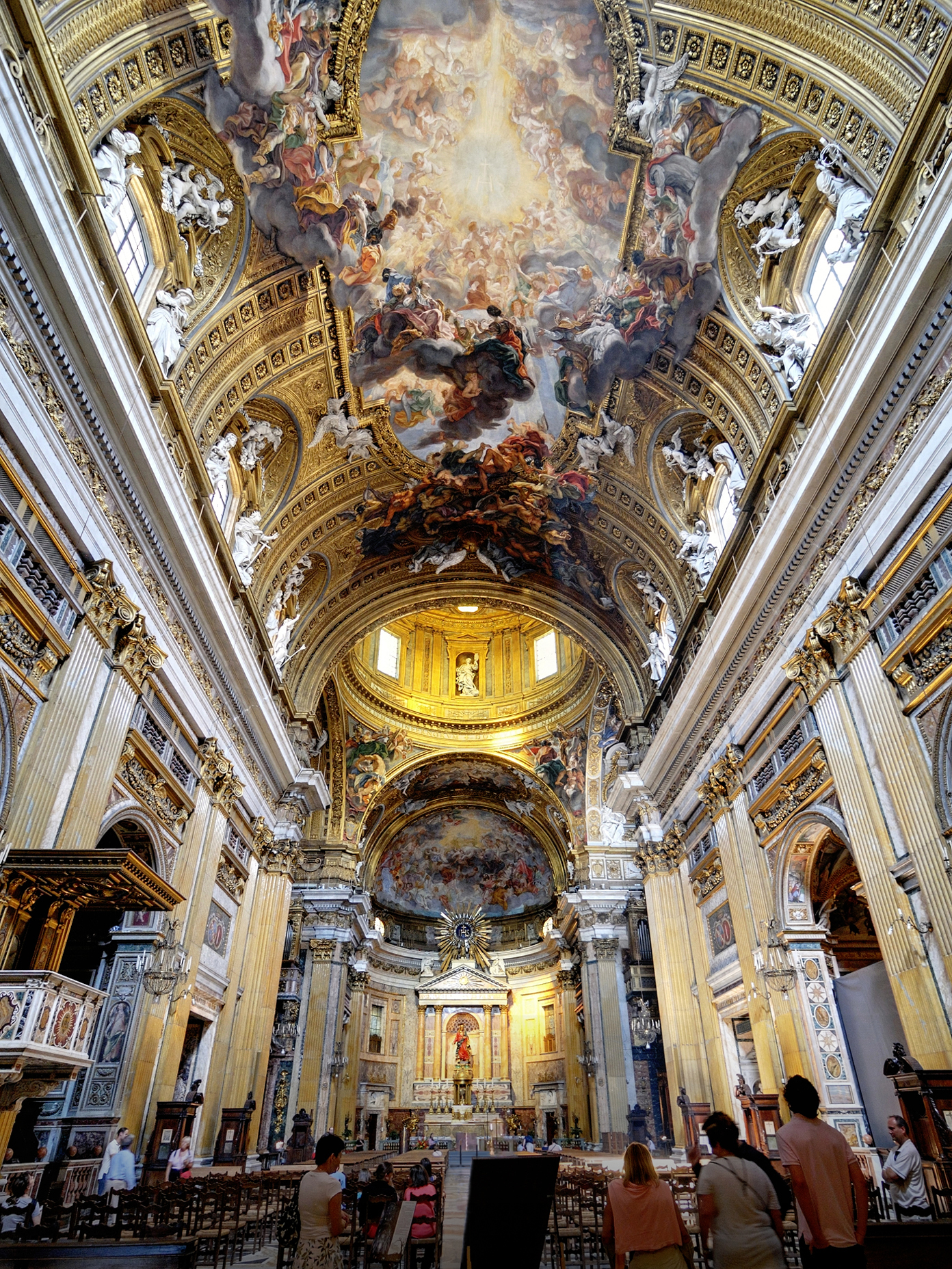 The central nave of the Chiesa del Santissimo Nome di Gesù all'Argentina, Rom, with the ceiling fresco by Gaulli